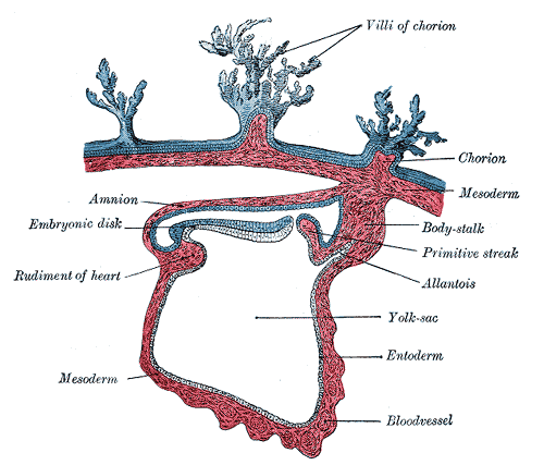 Section through the embryo which is represented in Fig. 17. (After Graf Spee.)